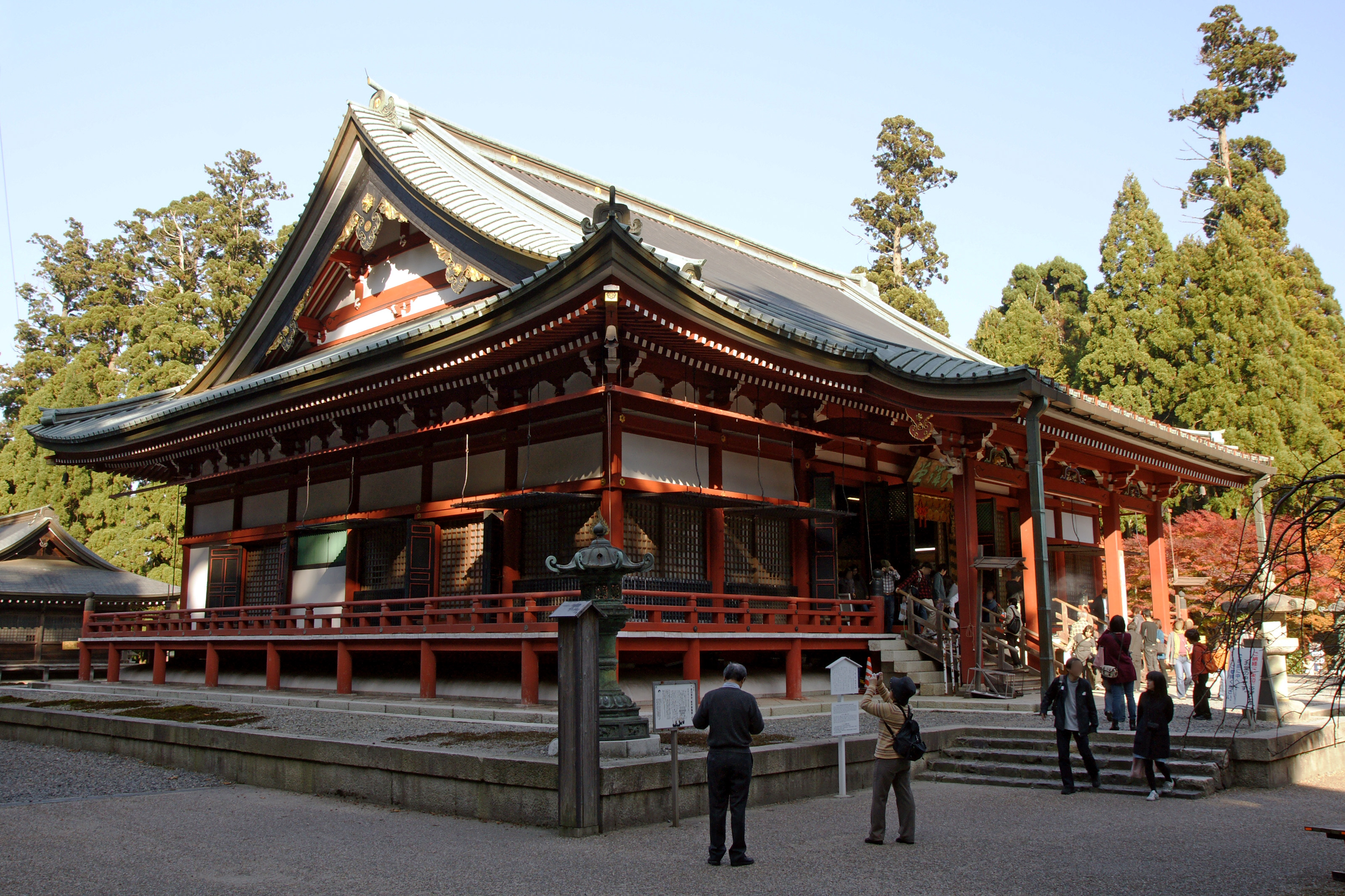 Daikodo of Enryakuji Buddhist temple is a Japan's Important Cultural Property in Otsu, Shiga prefecture, Japan. It was rebuilt in 1634.